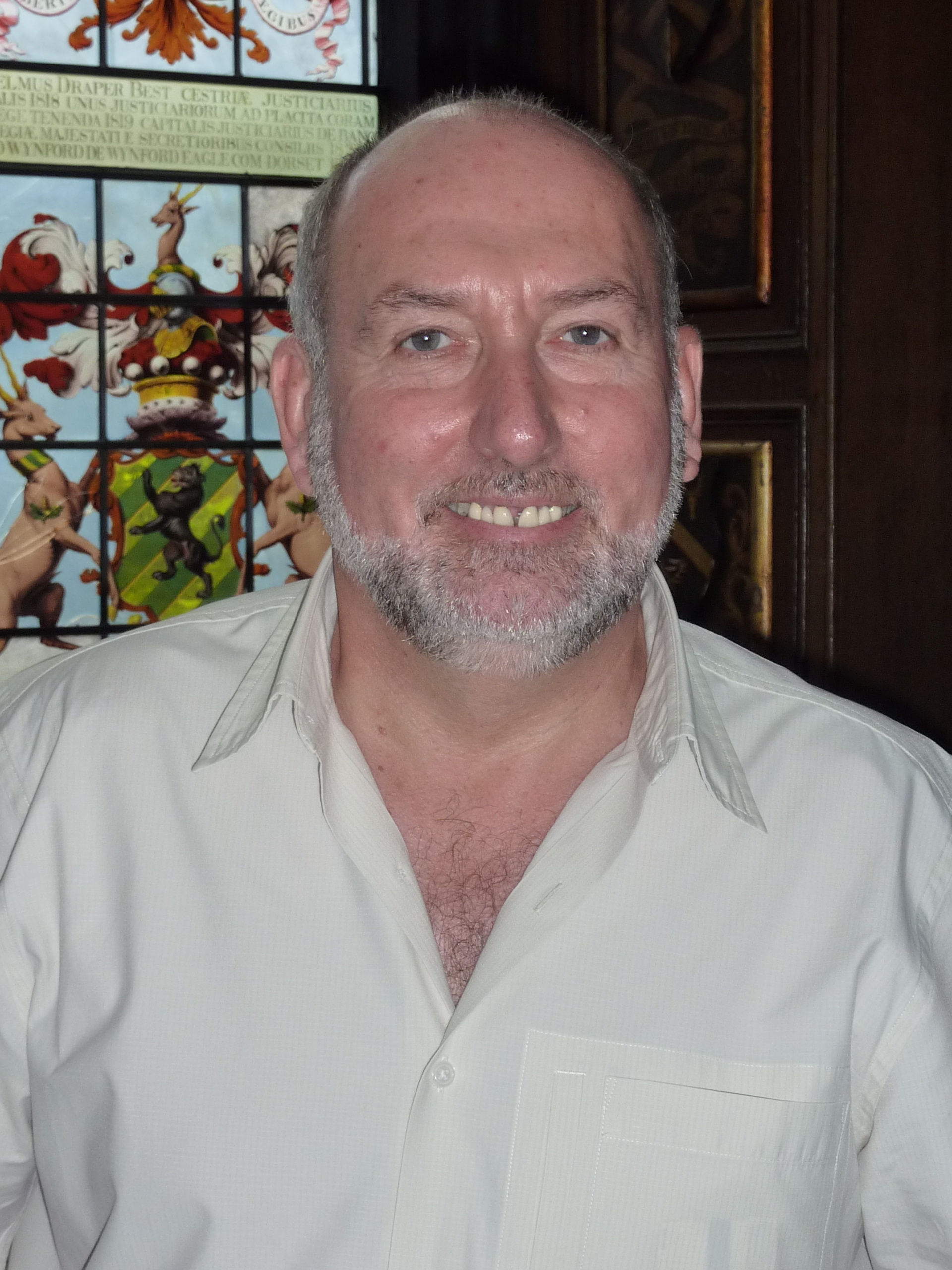 Shot of Stephen West